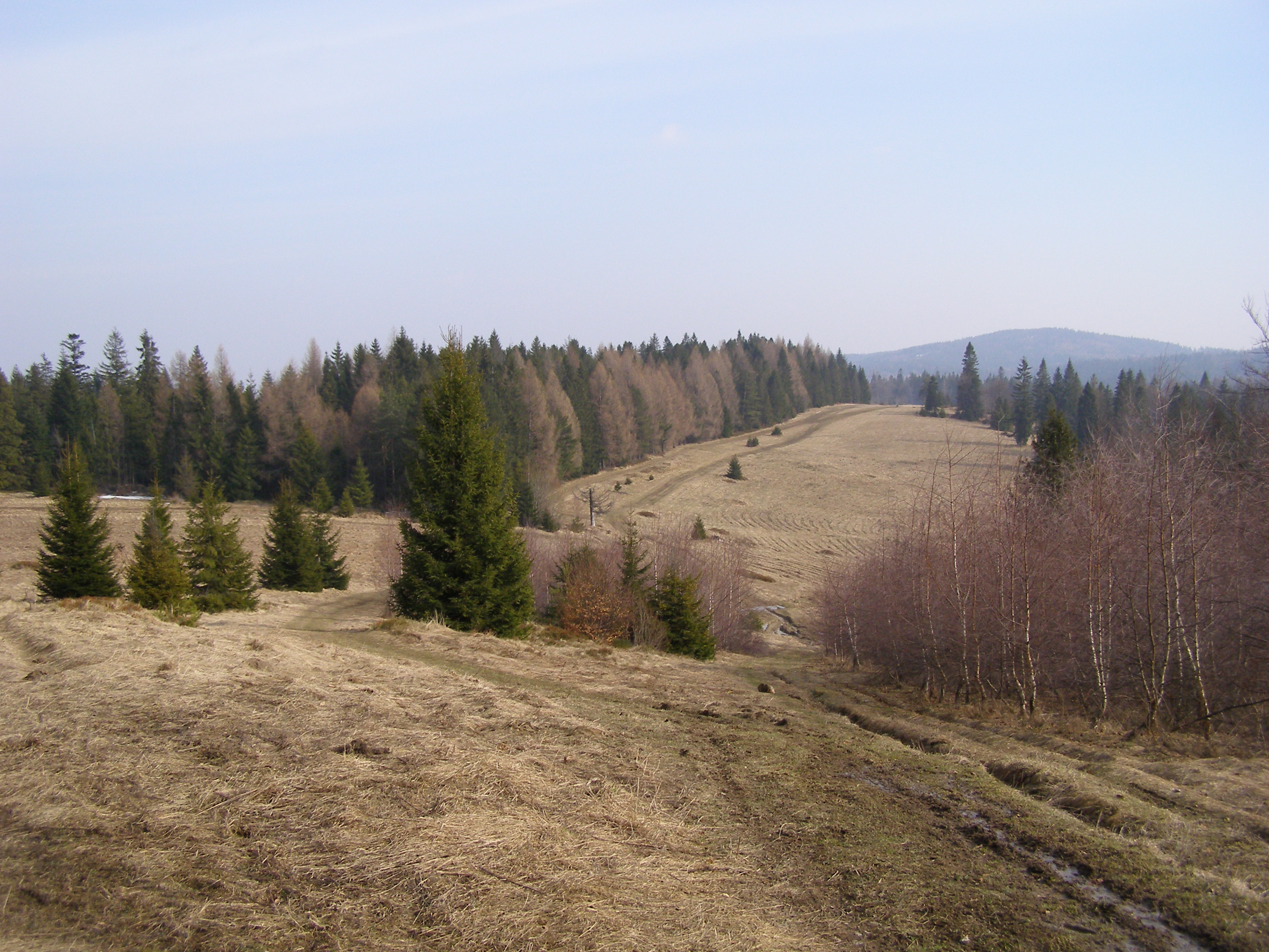 The Polana Litawcowa in The Beskid Sądecki mountain range.